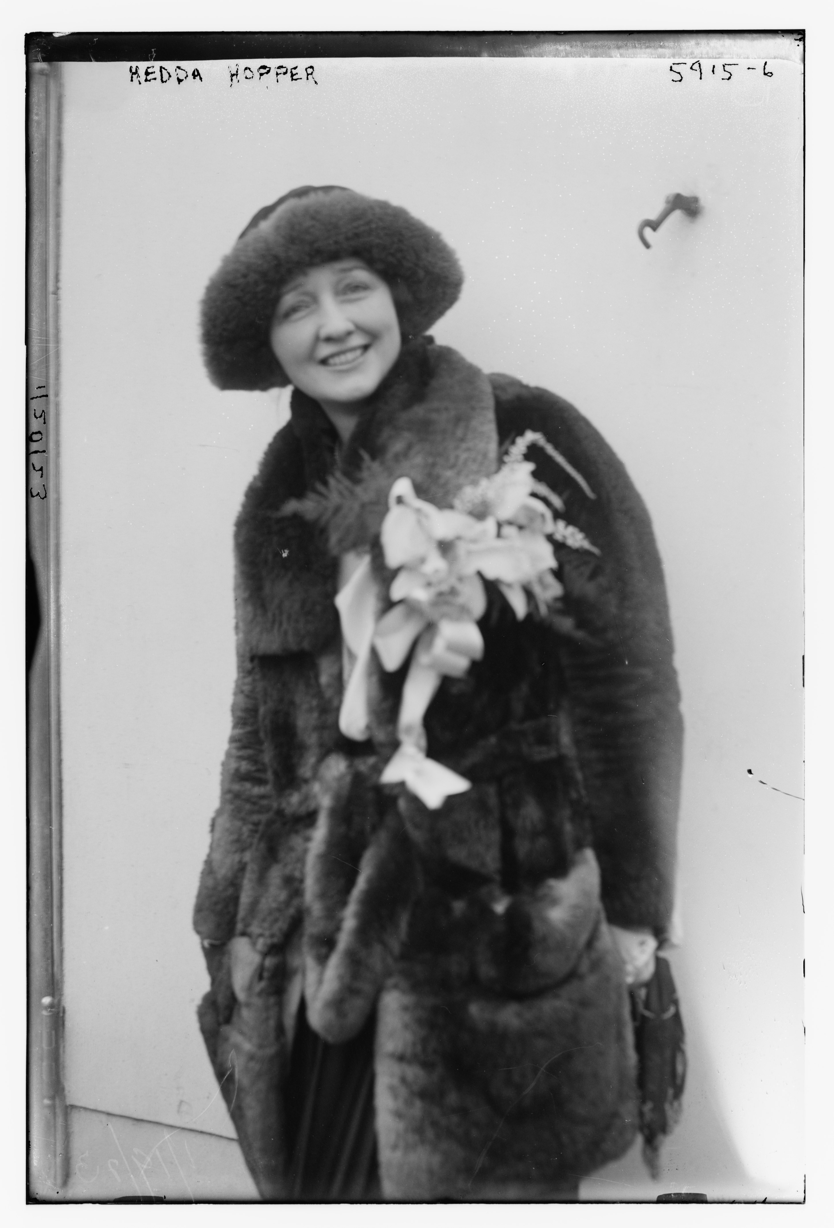 Title: Hedda Hopper Abstract/medium: 1 negative : glass ; 5 x 7 in. or smaller.